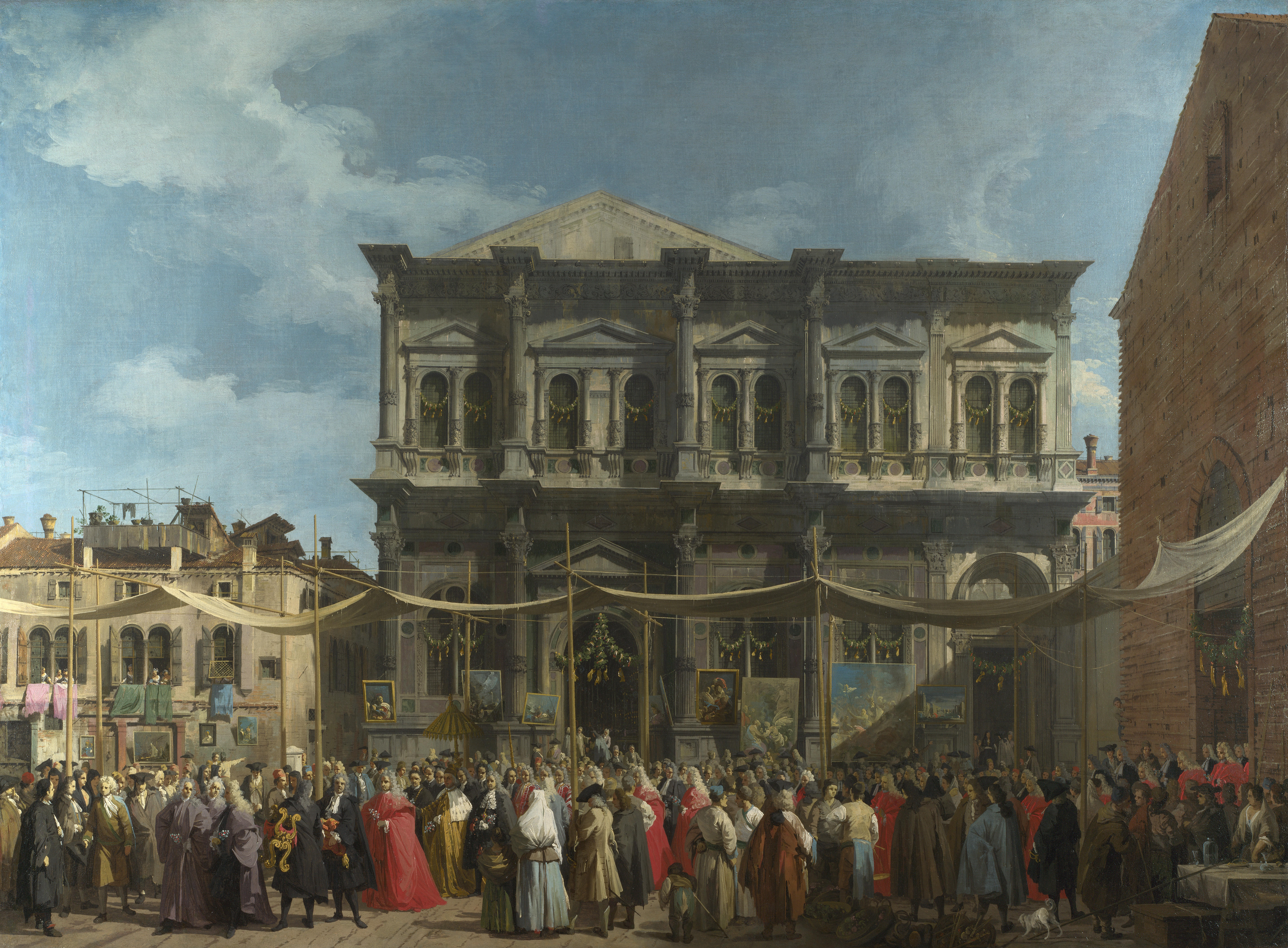 the grand procession with the Doges